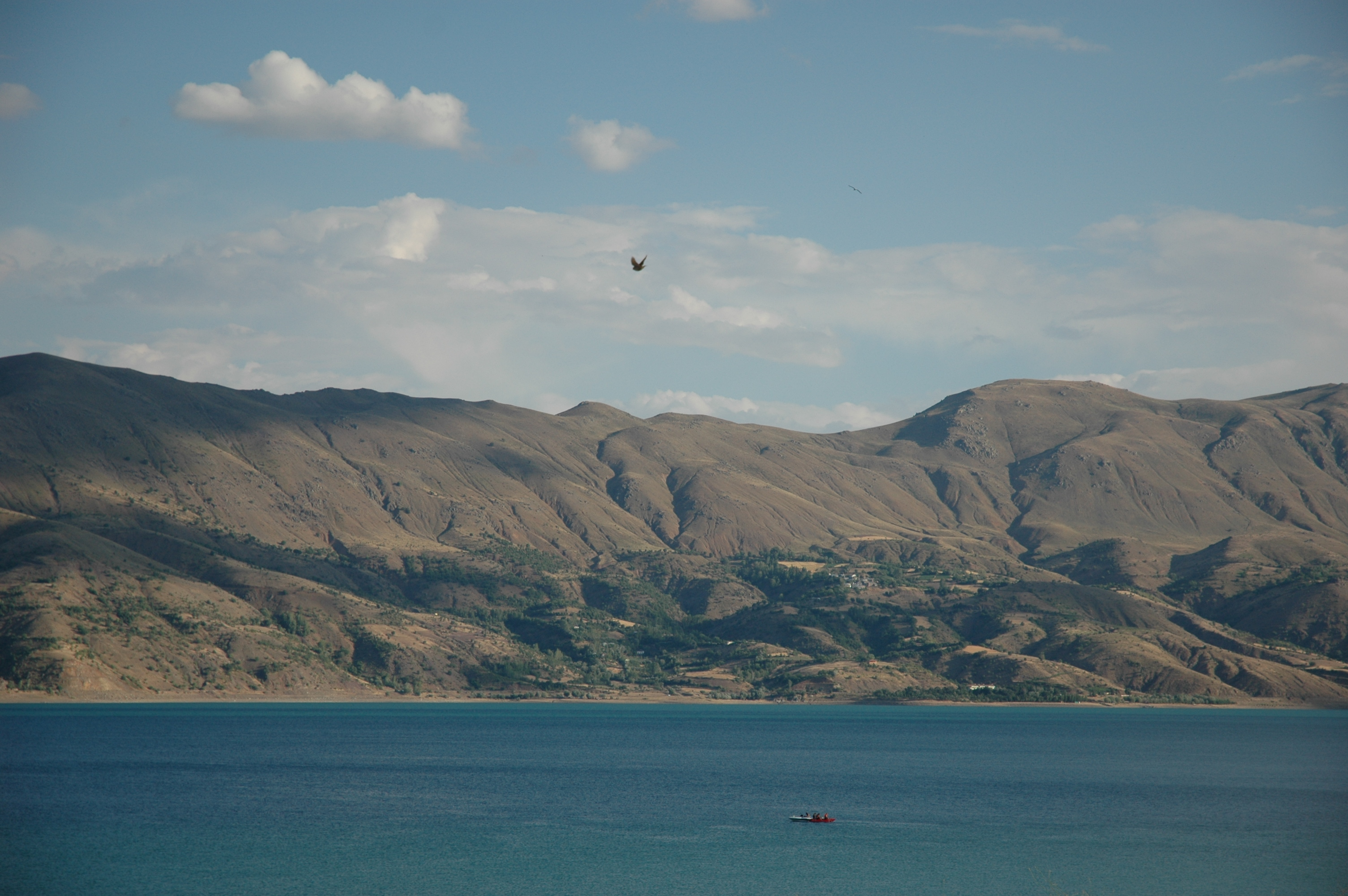 Mount Hazar Baba rises above Lake Hazar, Elazig, Turkey